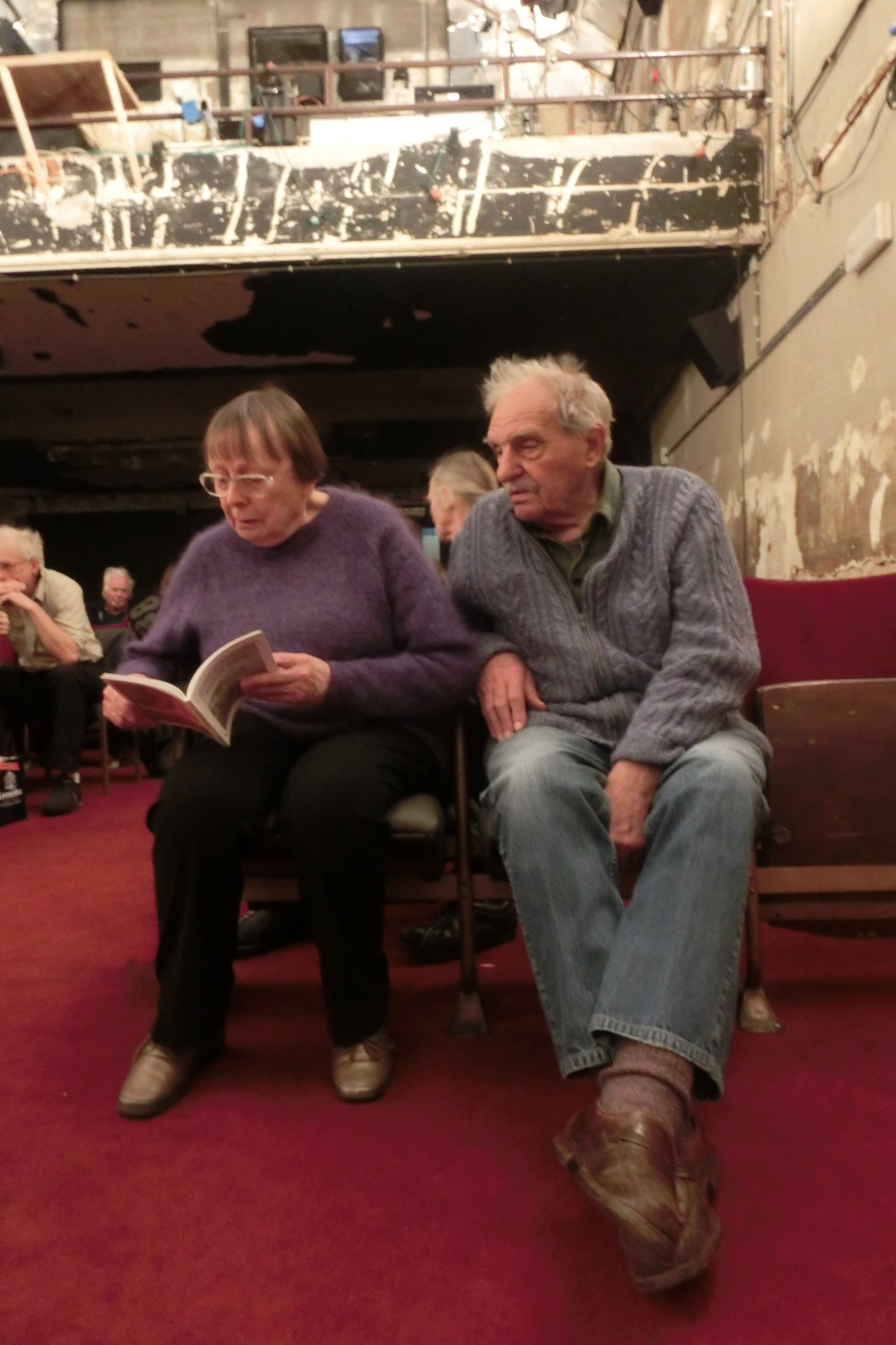 Jean Harlez and his wife, Marcelle Dumont, in the cinema Nova in Brussels, during the retrospect of his works, January and February 2014.